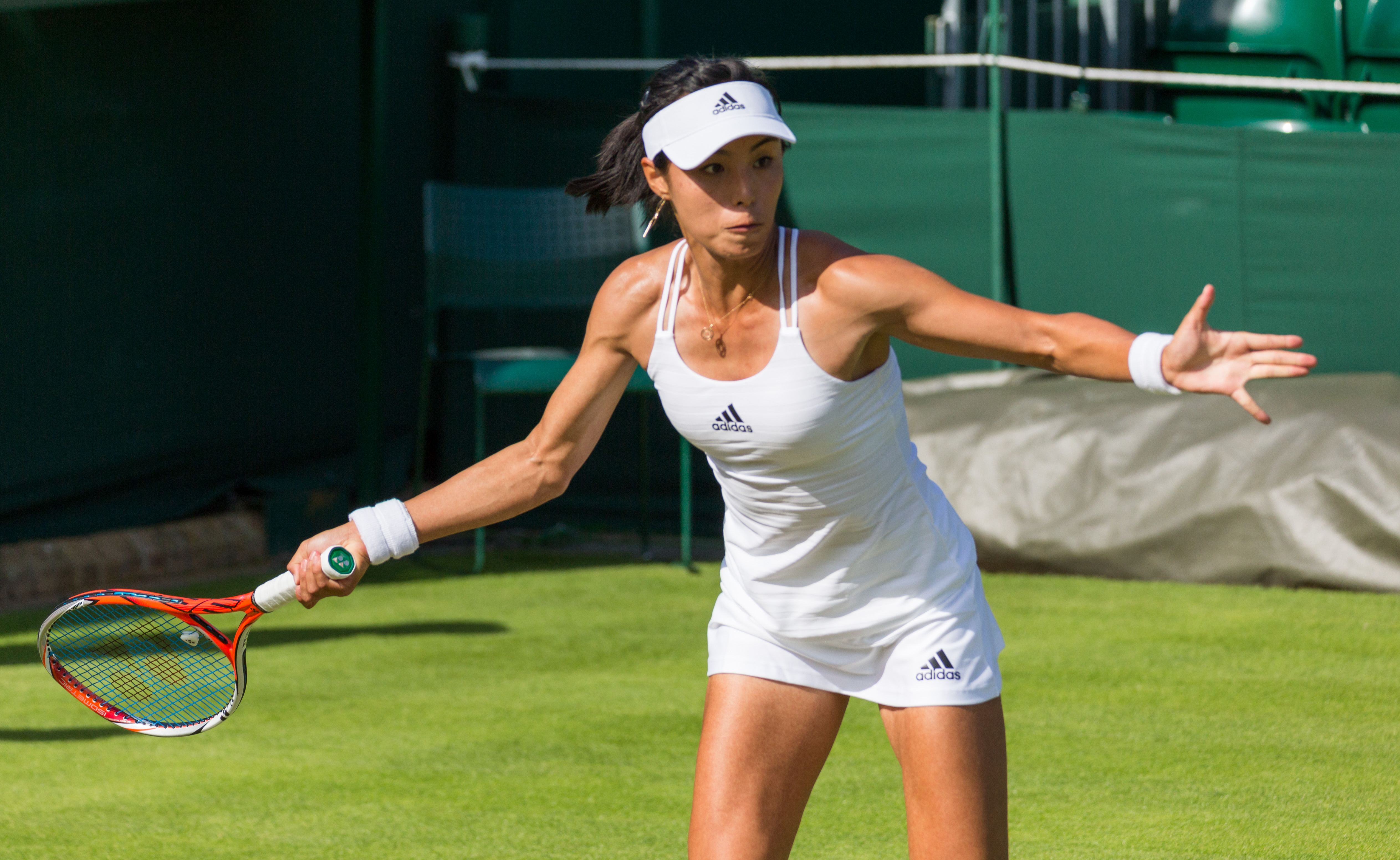 Wang Qiang competing in the first round of the 2015 Wimbledon Championships.